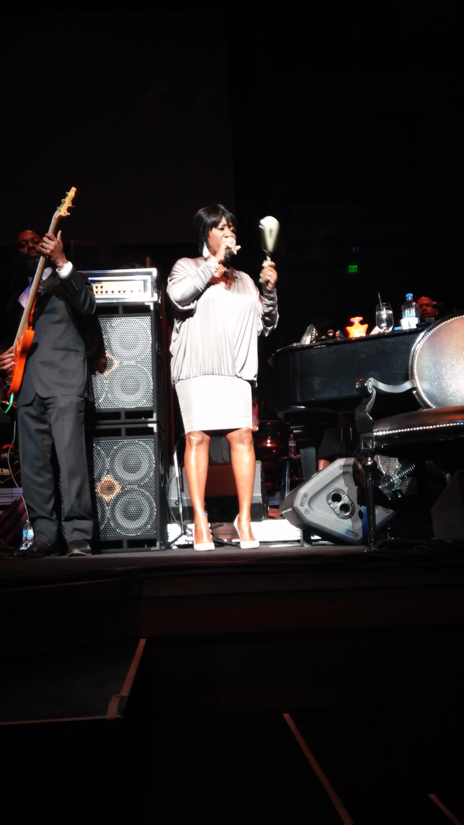 Patti LaBelle performing at the Schermerhorn Symphony Center in Nashville, TN on February 13, 2016